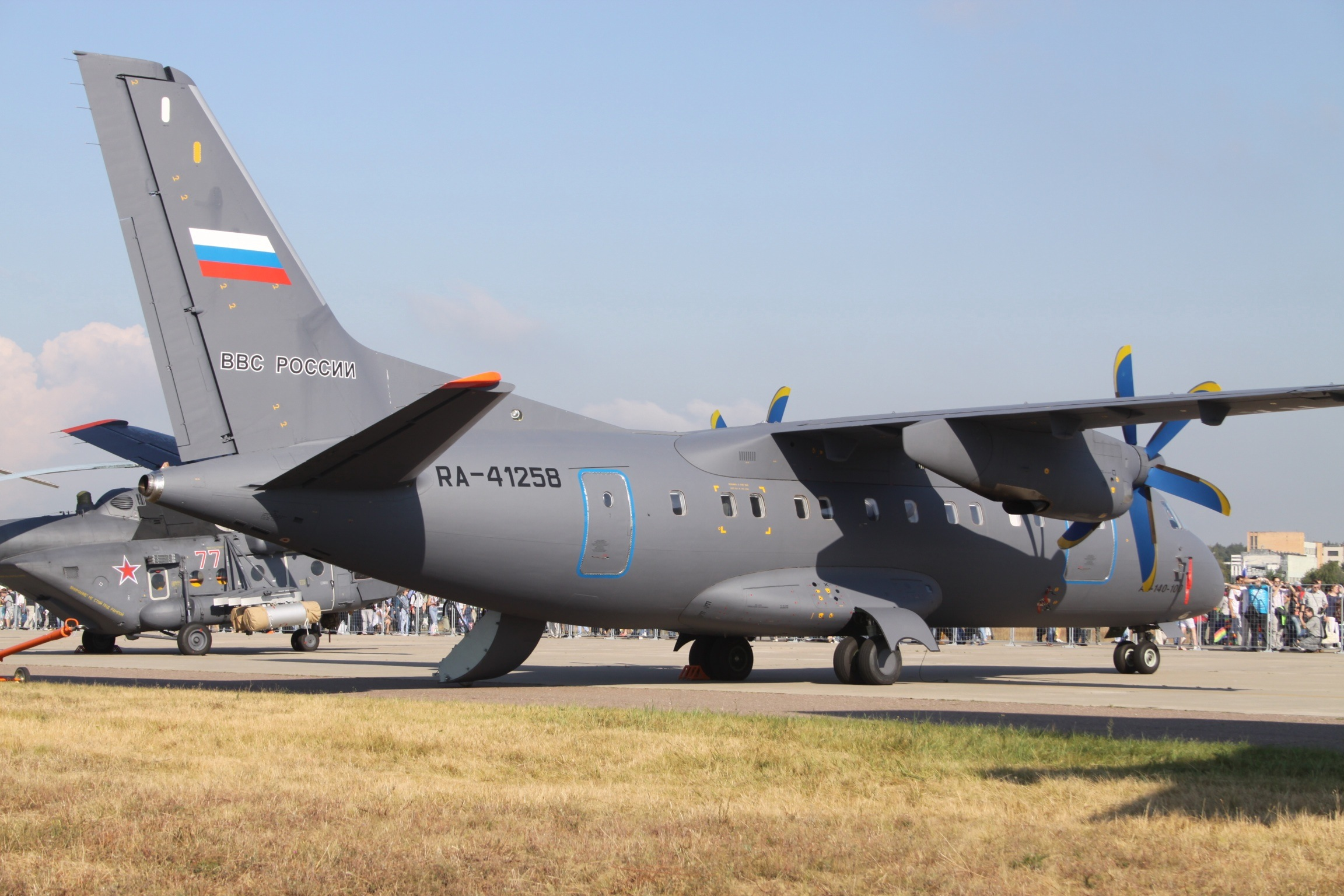 At Moscow Zhukovsky